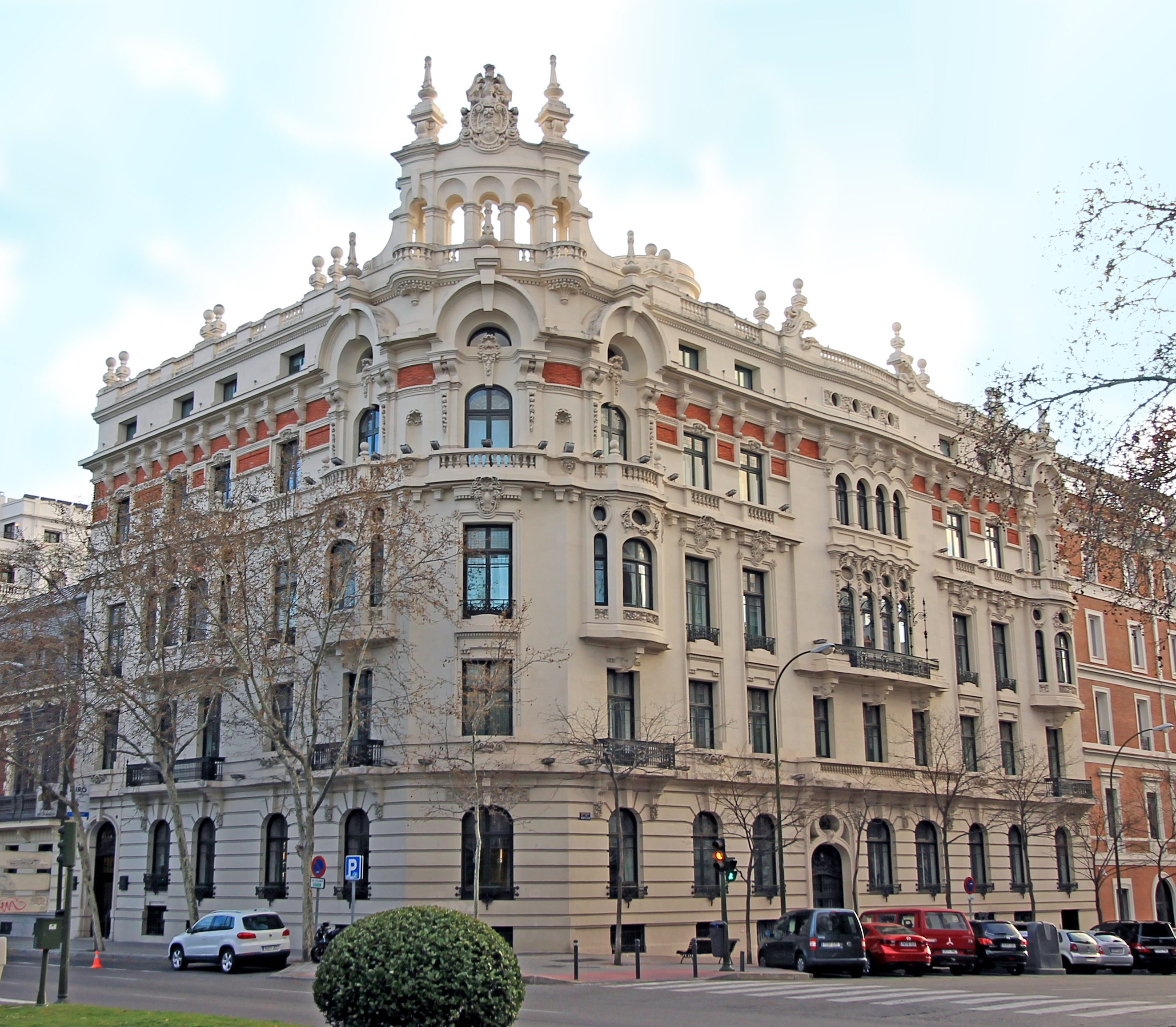 Façade of Palacio Oriol in Madrid (Spain).